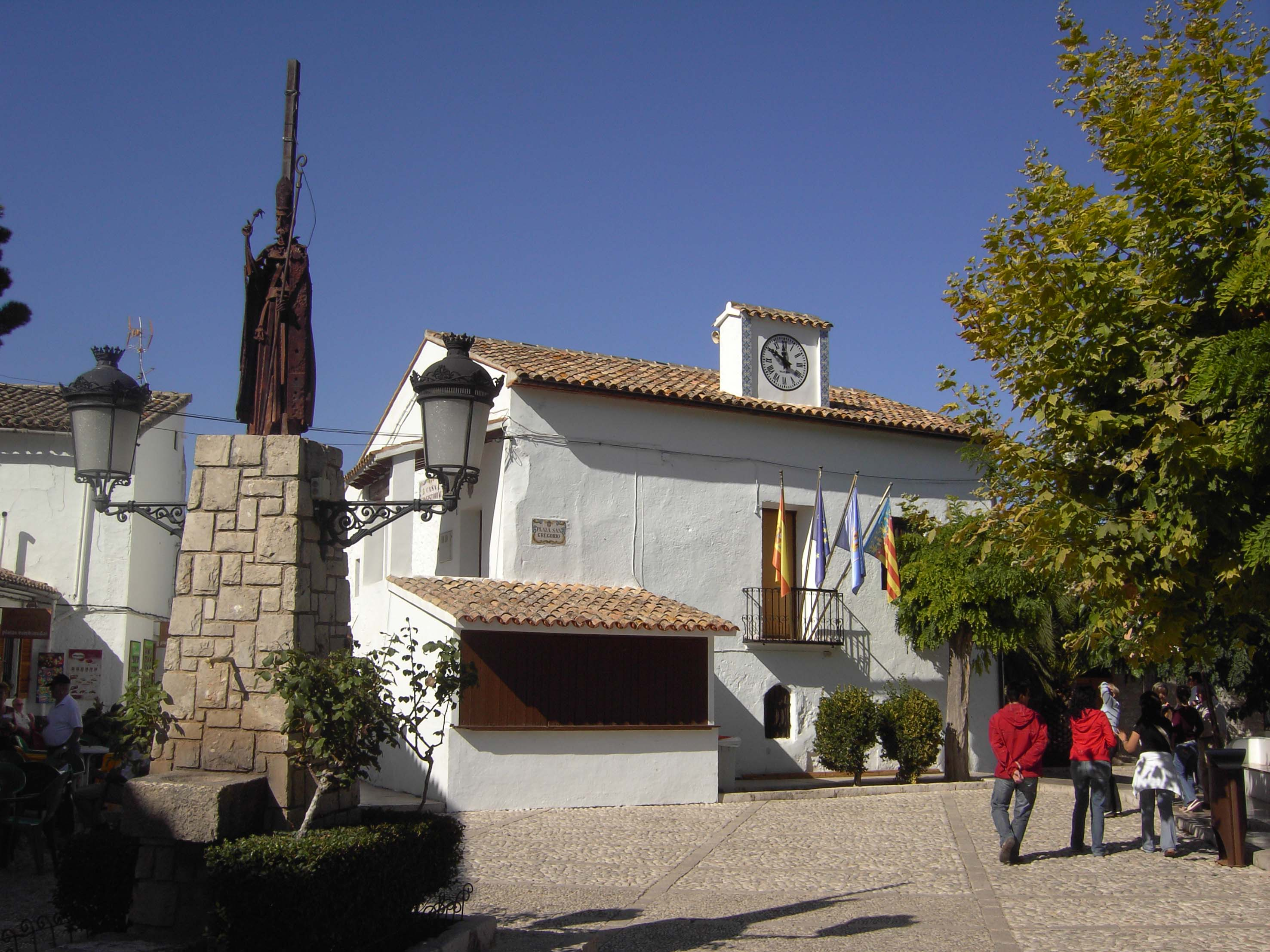 Guadalest - Spain - Town hall